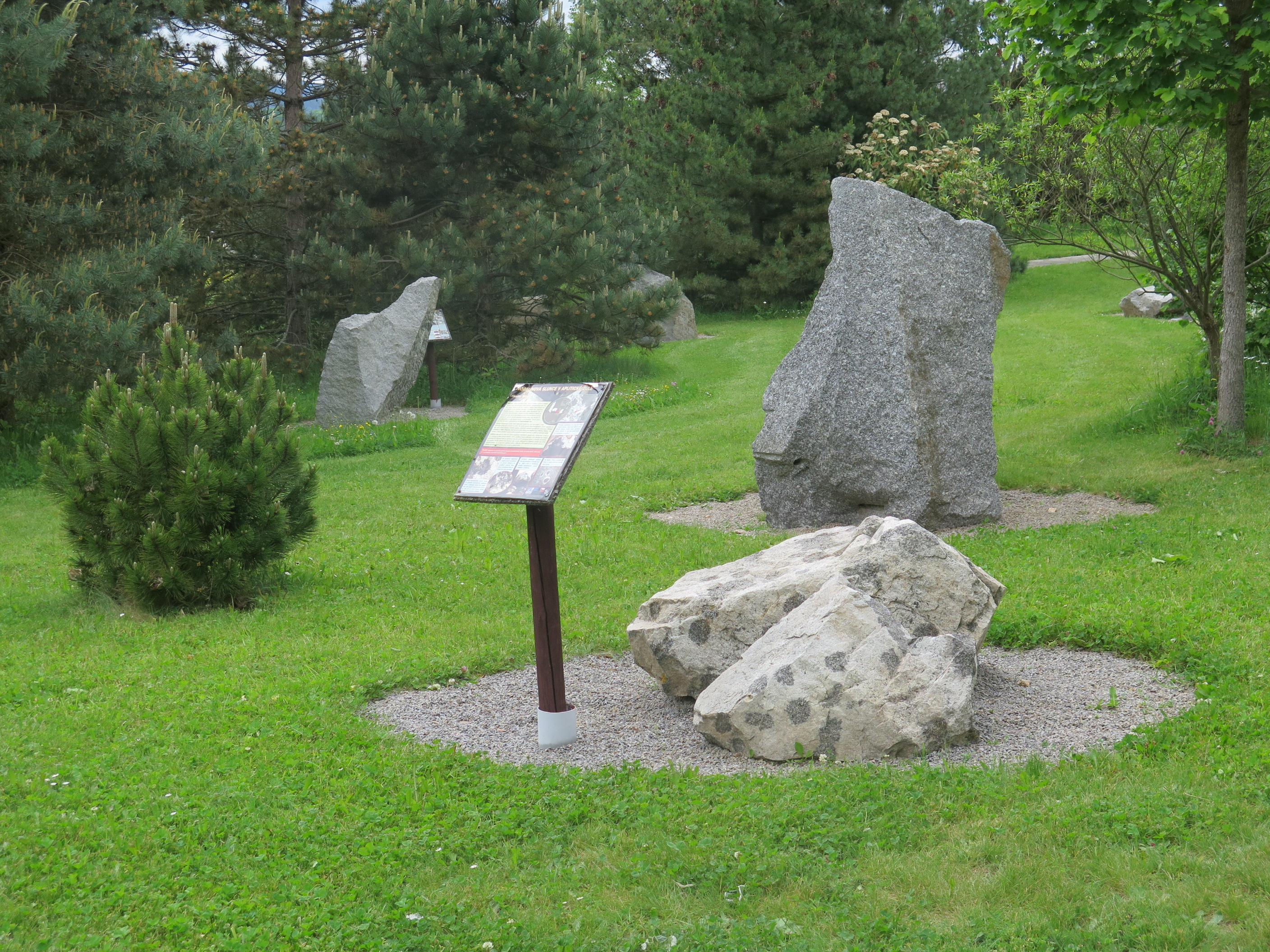 expositions in Nature History Museum Tyn nad Vltavou